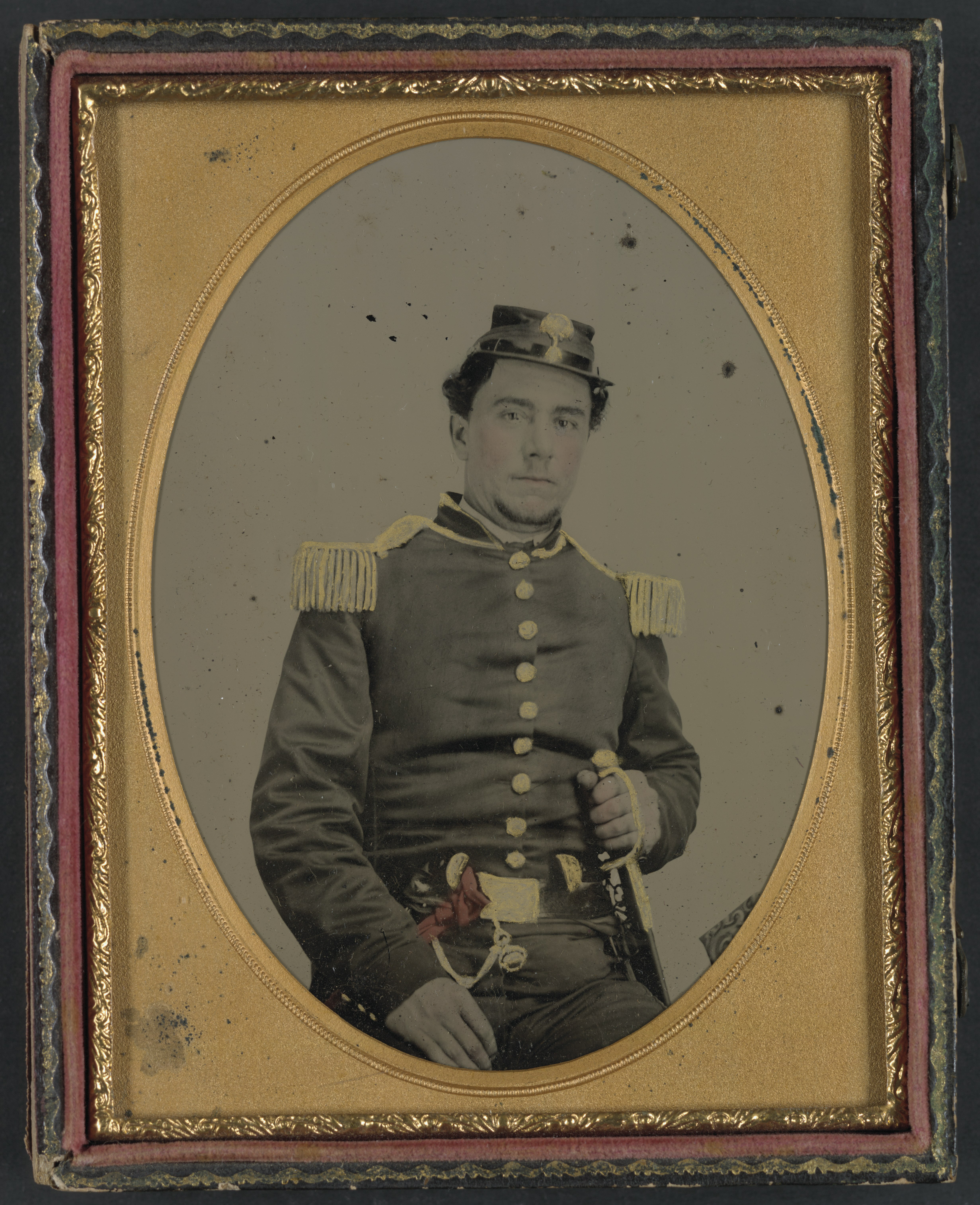 Title: Jesse Sharpe Barnes, later captain of Co. F, 4th North Carolina Infantry, in South Carolina militia uniform with sword and pistols Abstract/medium: 1 photograph : quarter-plate ambrotype, hand-colored ; 11.9 x 9.3 cm (case)